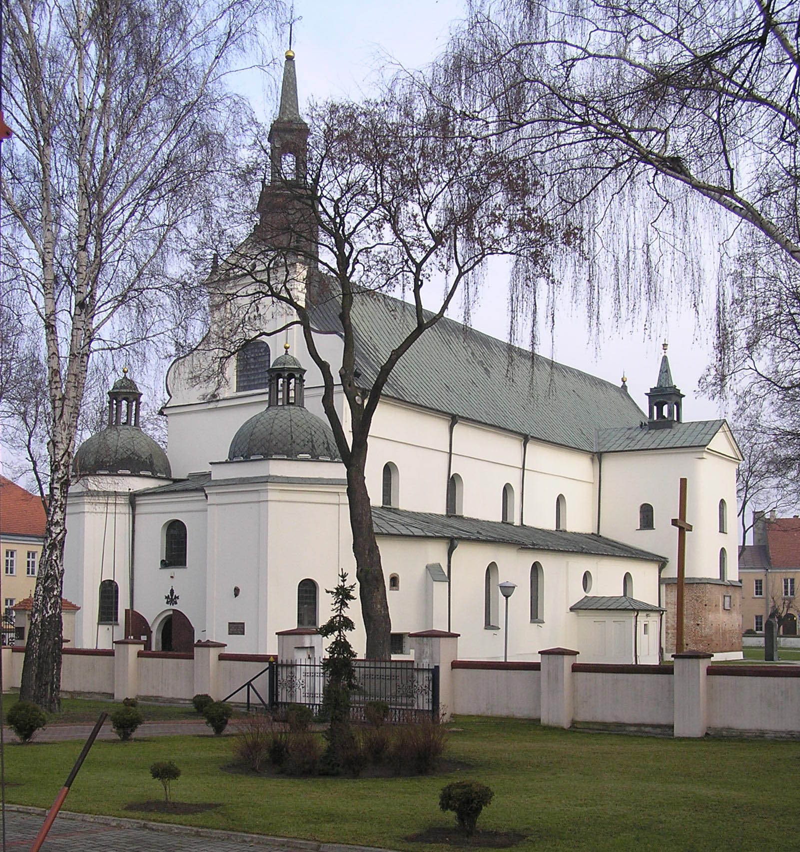 Collegiate Church of Annunciation in Pułtusk